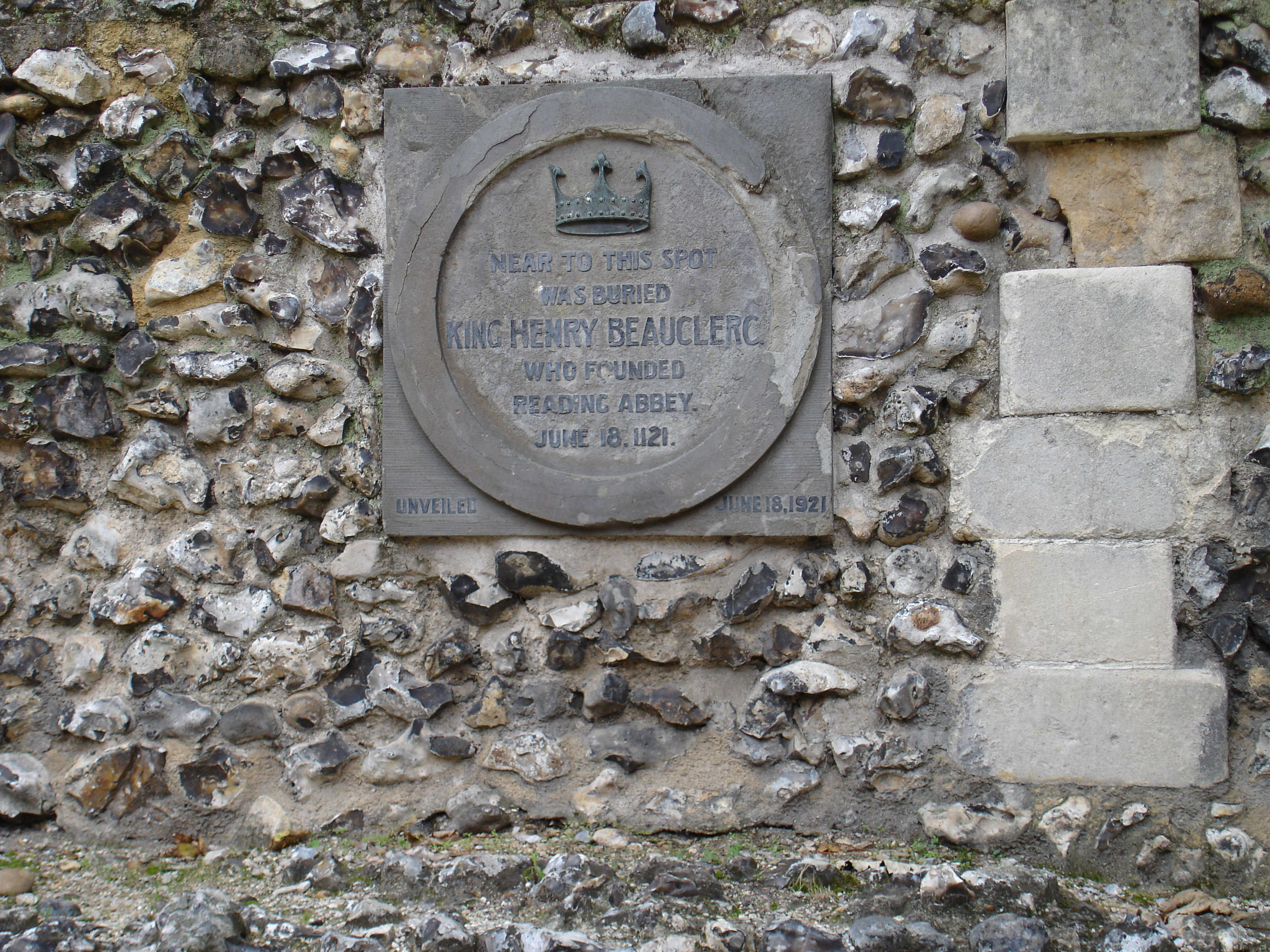 Photograph of plaque indicating location of the burial of King Henry I of England at Reading Abbey, Berkshire